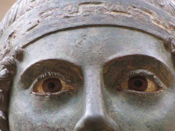 Eyelashes